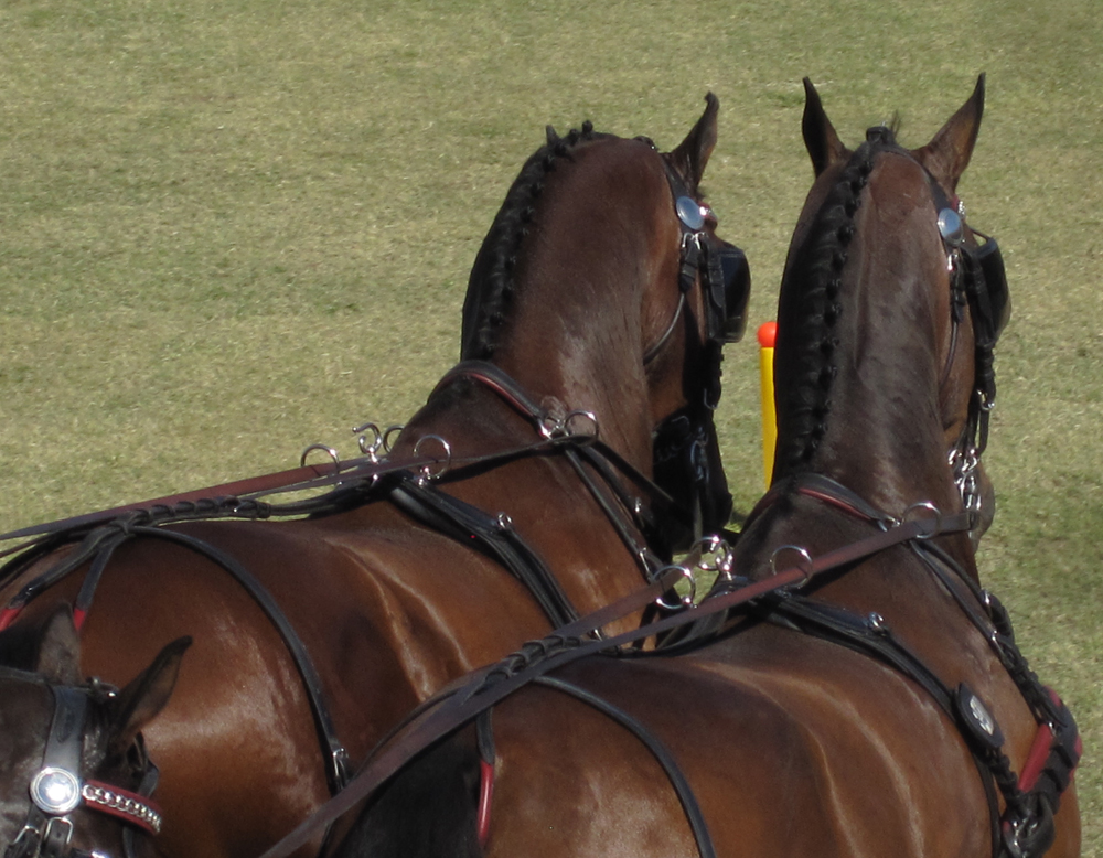 Photography By Heather Moreton-Abounader